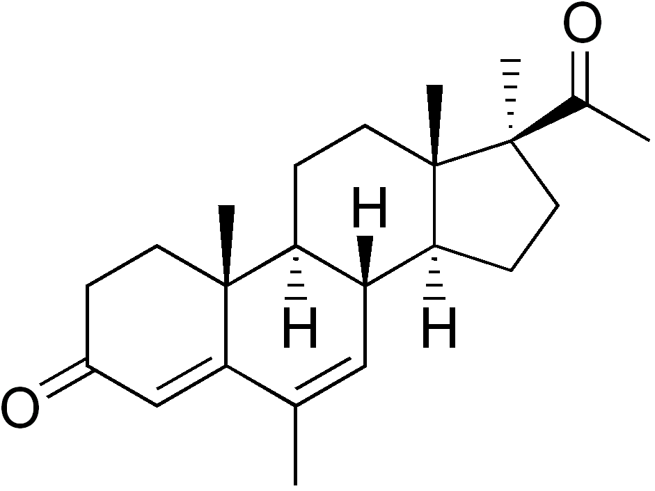 chemical structure of Medrogestone